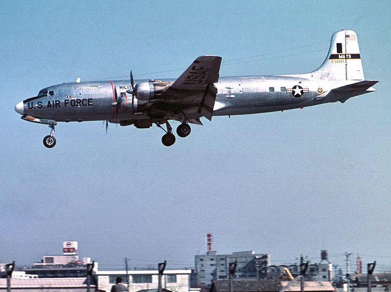 Military Air Transport Service Douglas C-118A Liftmaster 53-3265, about 1960 (United States Air Force Photo)